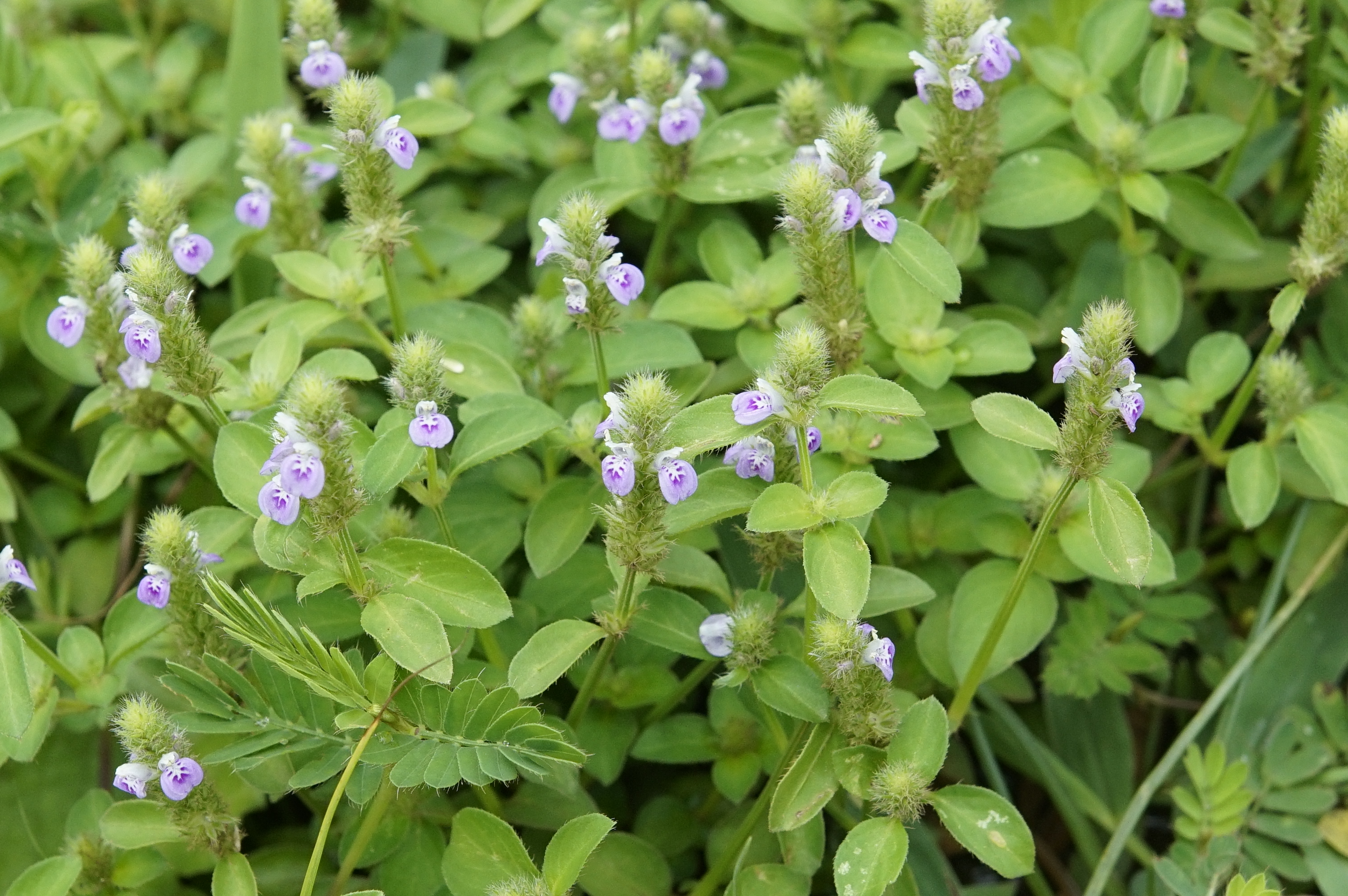 Justicia japonica